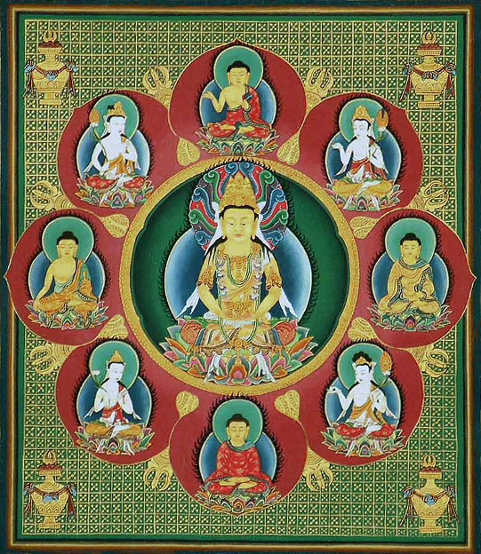 Center of a Garbhadhatu (Sanskrit) or Taizo-kai (jp.) - Mandala. Adibuddha Vairochana, surrounded by four further Adibuddhas (golden) and four Bodhisattvas (white); clockwise from top: Ratnaketu, Samantabhadra, Samkusumitaraja, Manjushri, Amitabha, Avalokiteshvara, Divyadundhubhimeghanirghosa, Maitreya. Location:Tokyo, Japan.